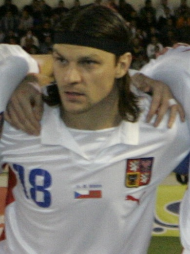 Ujfalusi with national team